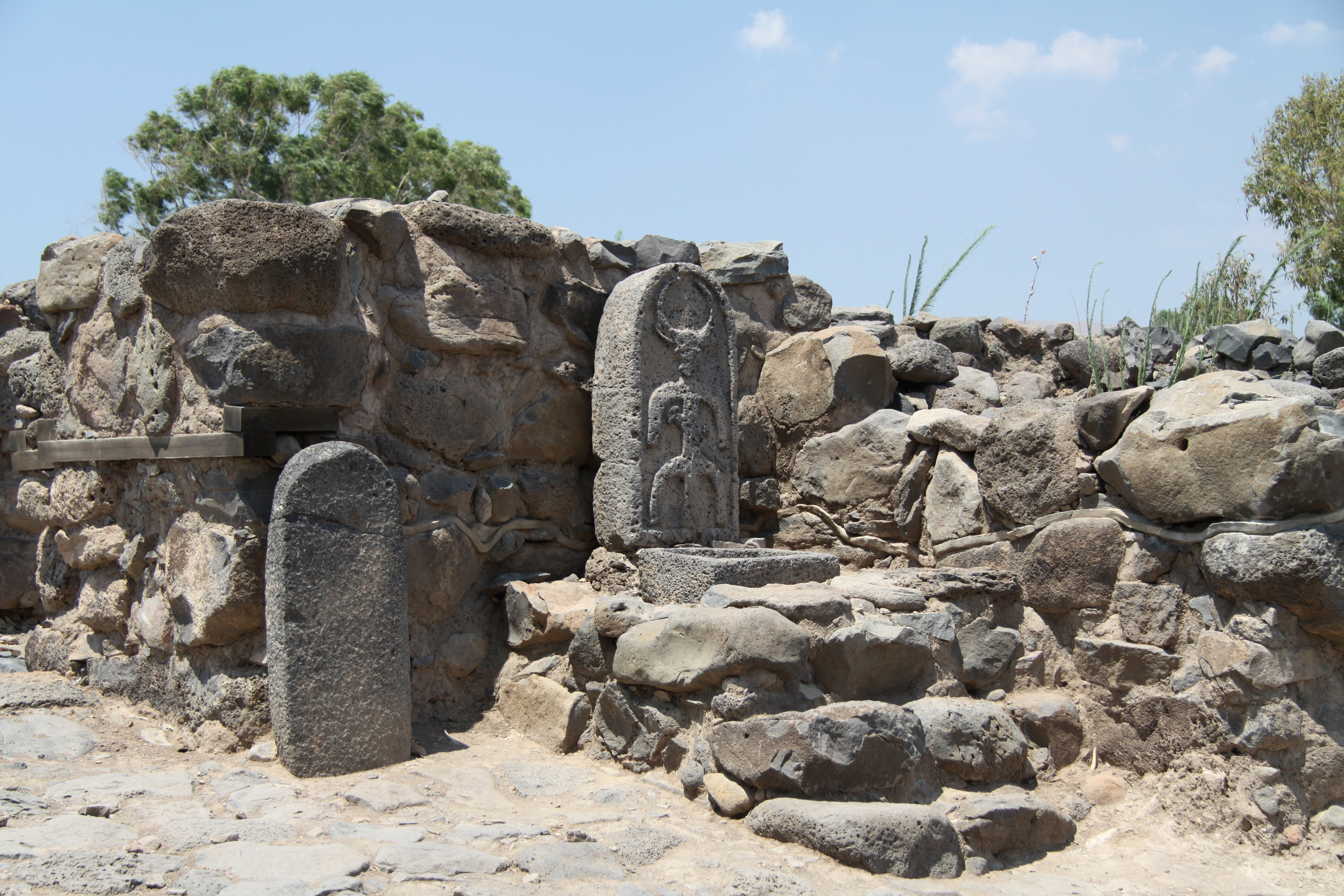 Ruins of the city gate and pagan stele at the Et-Tell archaeological site, which is sometimes identified with the town of Betsaida, which the Gospels mention. North of the Sea of Galilee in Israel